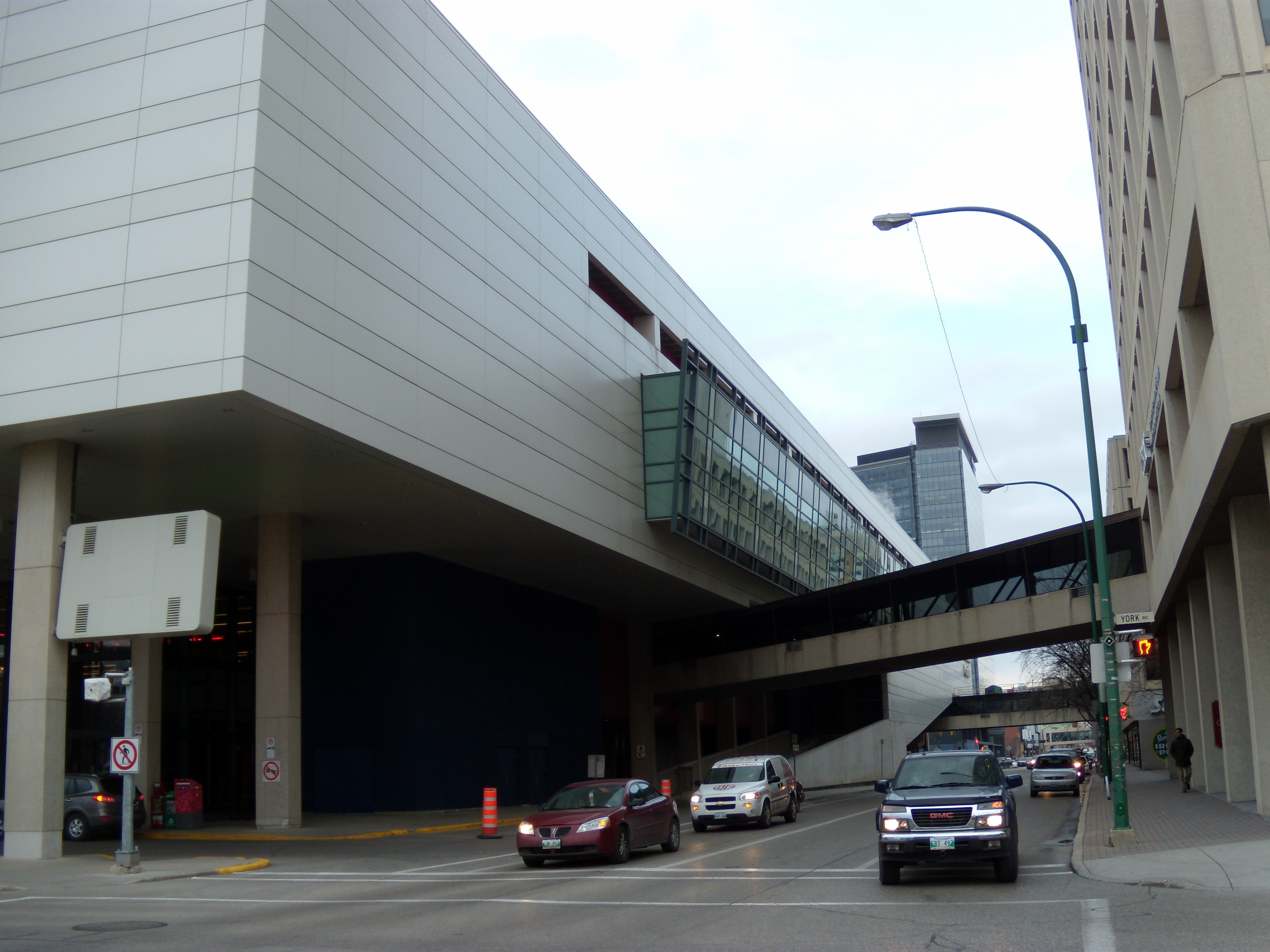 Winnipeg Walkway skywalk connections from Winnipeg Convention Centre to Lakeview Square